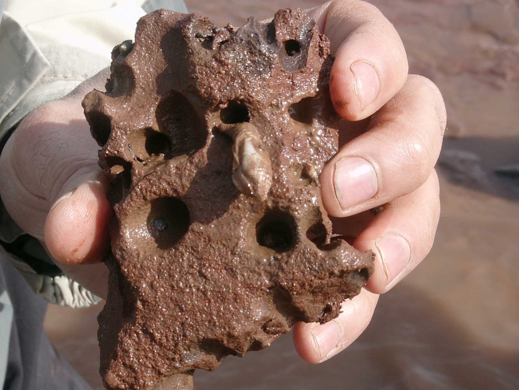 Angelwing and associated burrows in friable sandstone exposed along the Bay of Fundy, Nova Scotia.